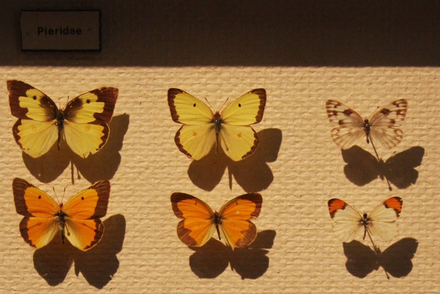 Pieridae specimens, University of Oslo: Zoological Museum